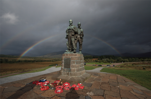 Rainbow Warriors (2) - Commando Memorial, Spean Bridge, near to Highbridge, Highland, Great Britain.